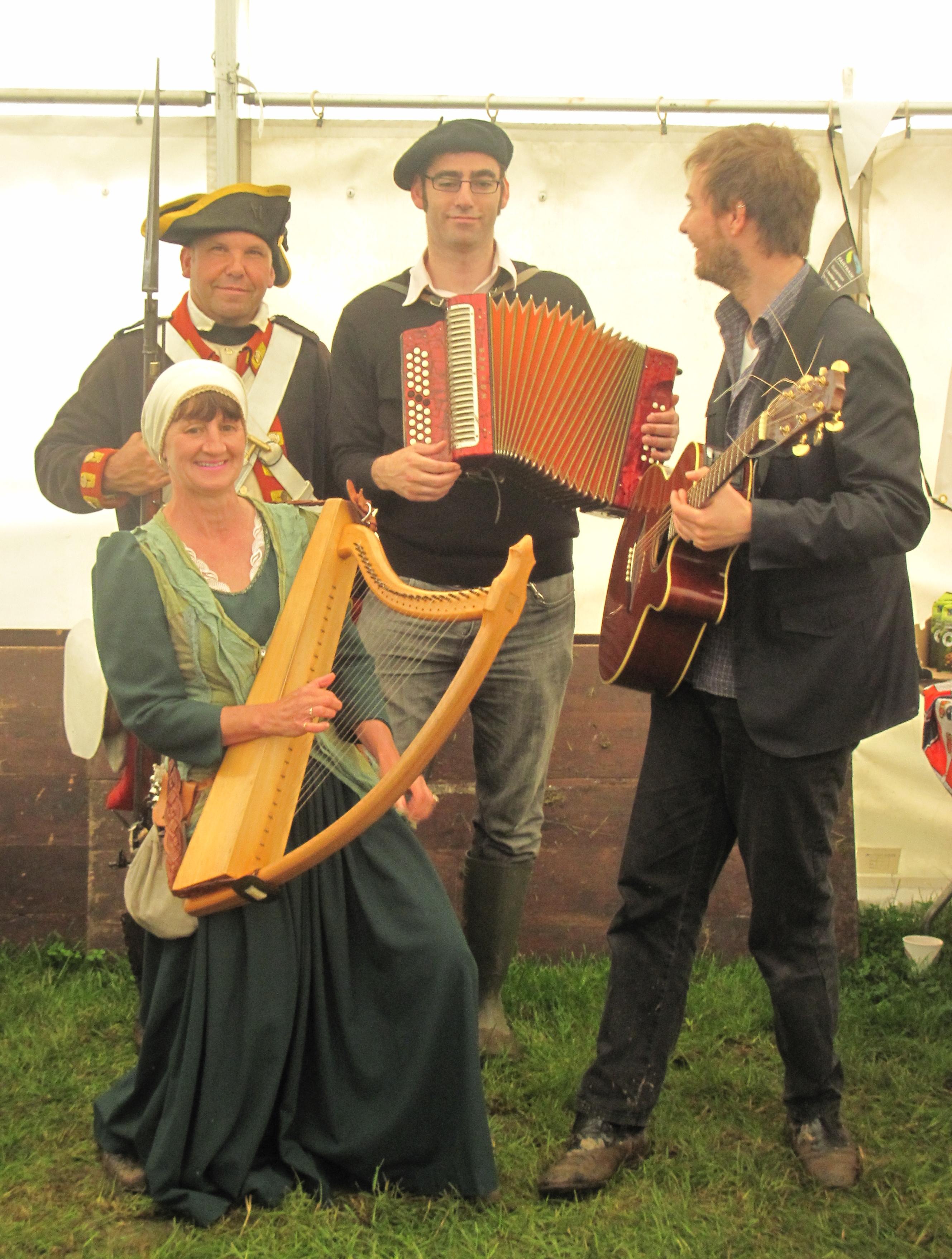 West Show, Jersey, 7-8 July 2012